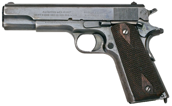 Colt Model of 1911 U.S. Army .45 ACP - ca. 1912